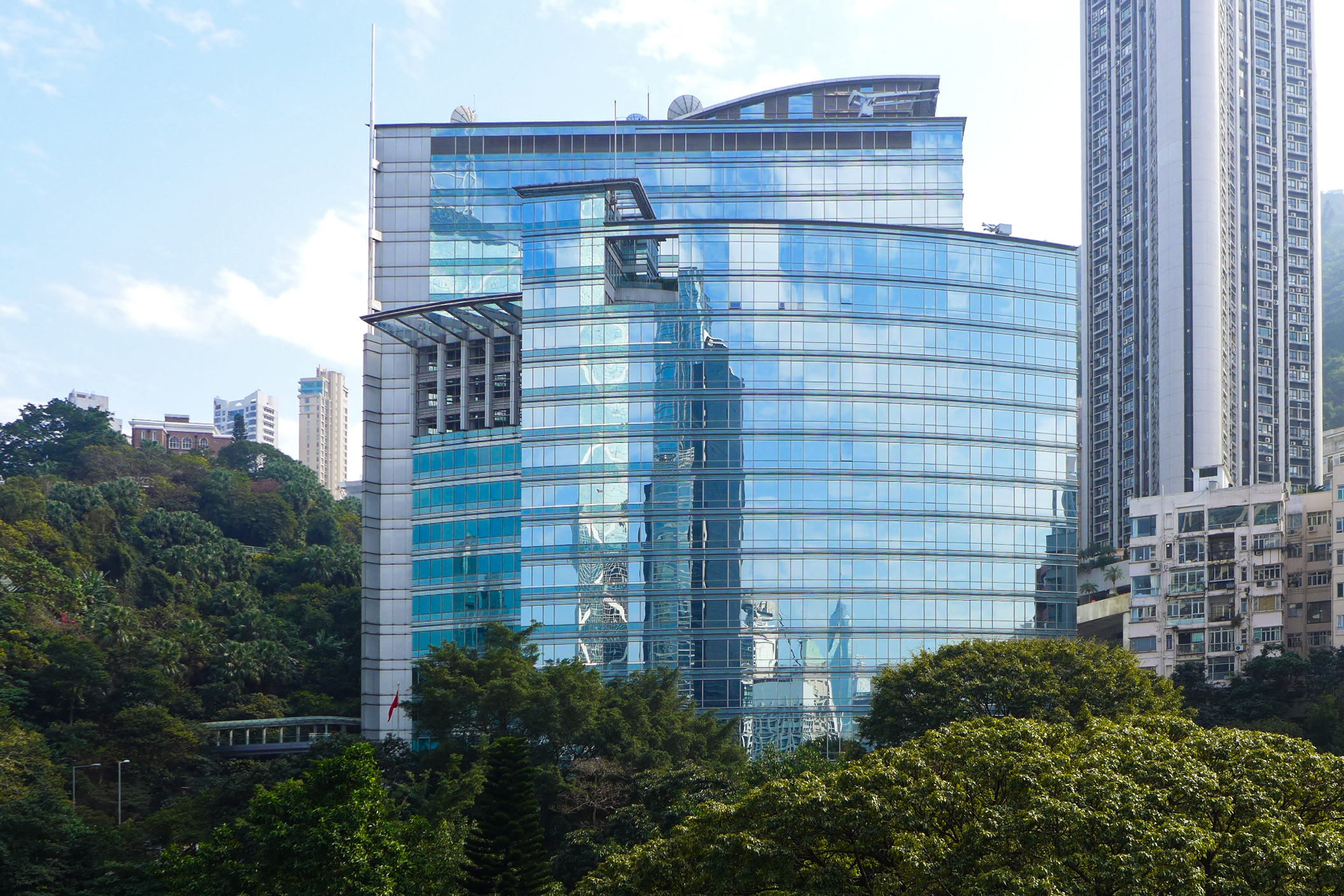 Office of the Ministry of Foreign Affairs of China complex